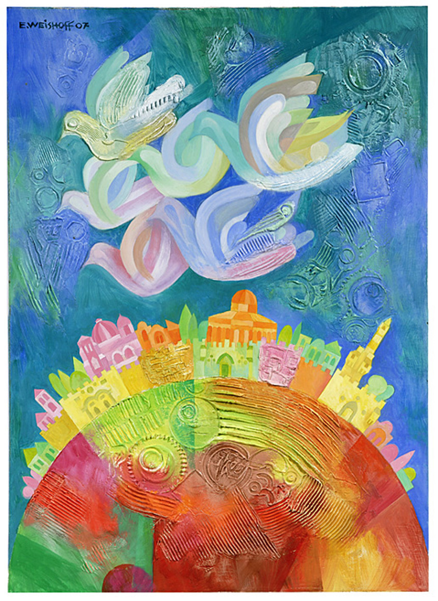 יונים מעל ירושלים, ציור שמן על בד designed by Eliezer Weishoff